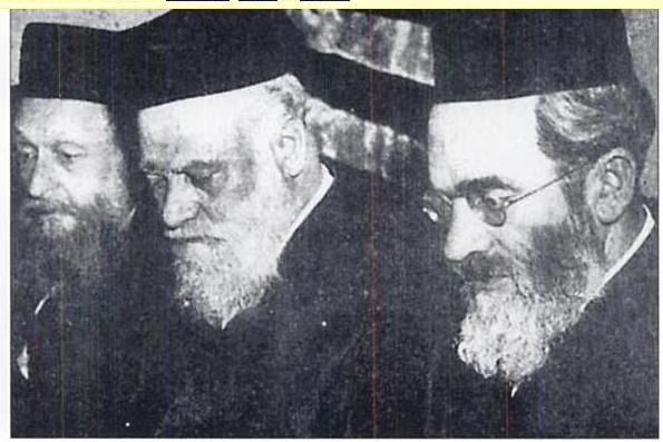 (left-to-right) Rabbi Jacob Ozer Dubrow, Rabbi Gedaliah Silverstone and Rabbi Yehoshua Klaven